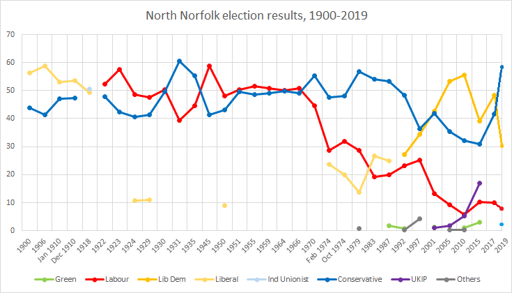 North Norfolk constituency history.